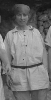 Dorothy Garrod, British archaeologist at Levant